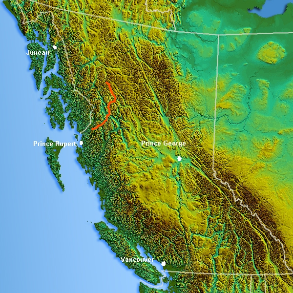 based on Northwest-relief.jpgwhich is in Wikimedia Commons